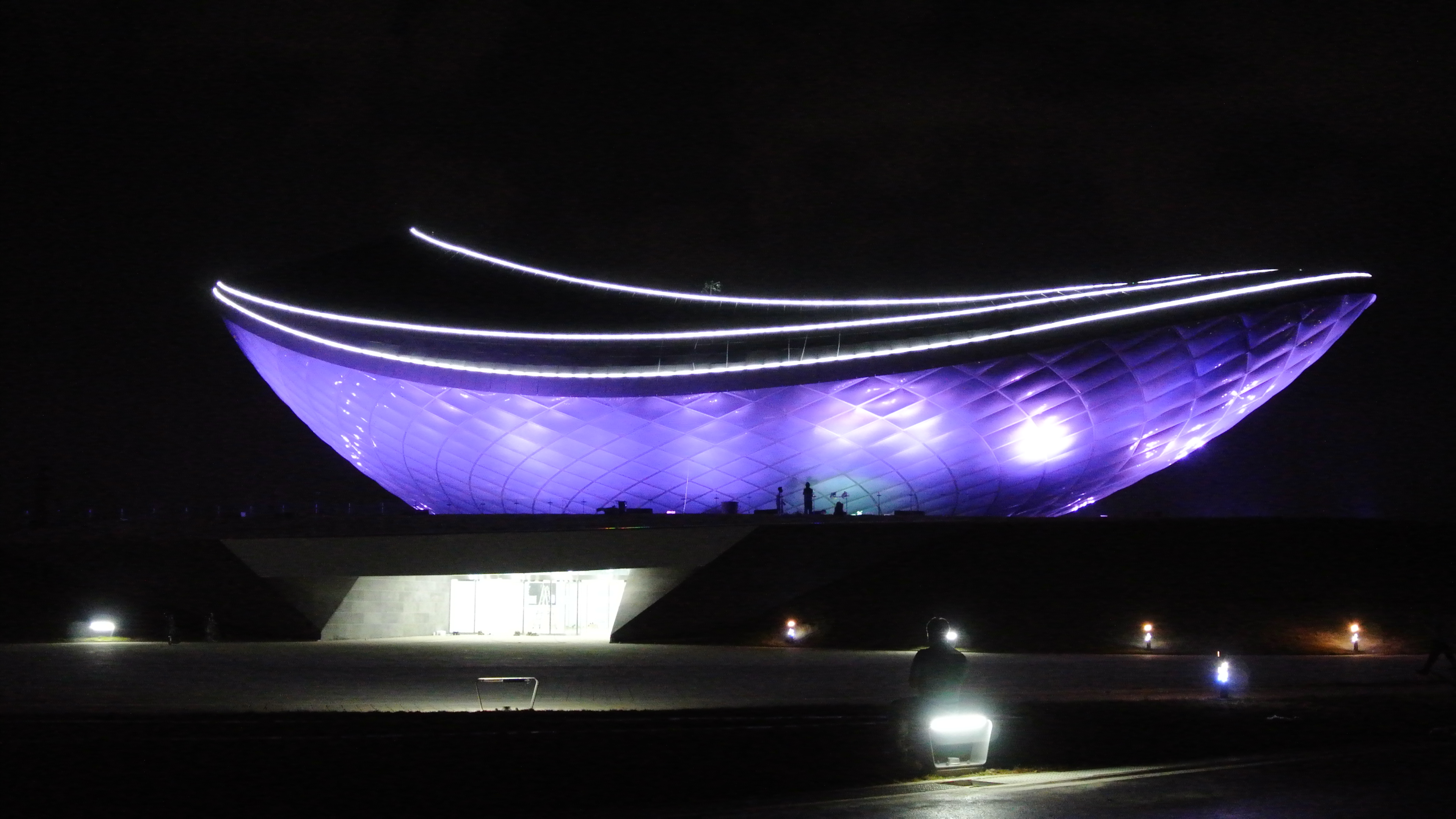 An inspiring connection between nature, thechnology and space.